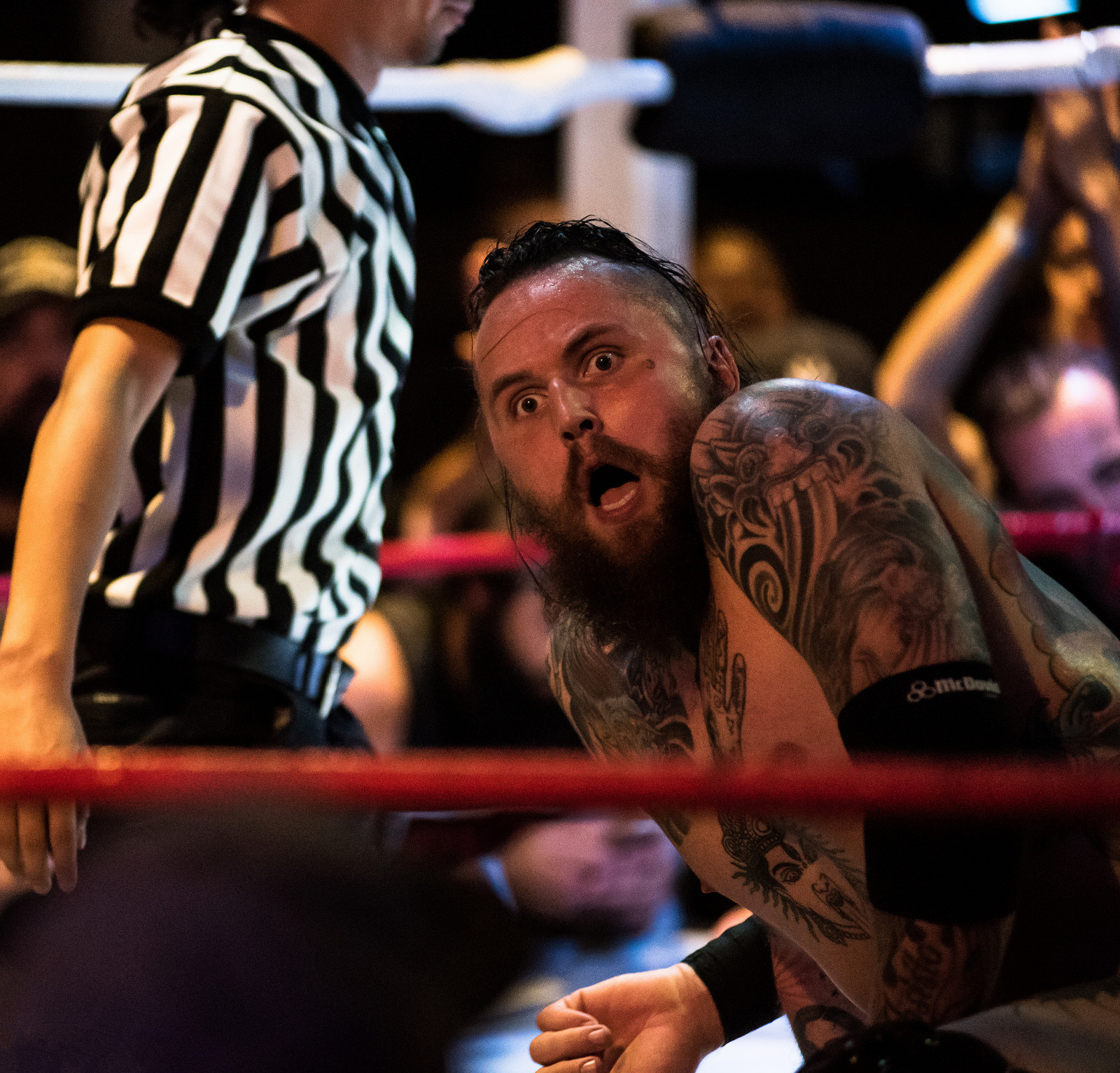 Tommy End after an August 2016 BEYOND WRESTLING match with Donovan Dijak in Providence RI